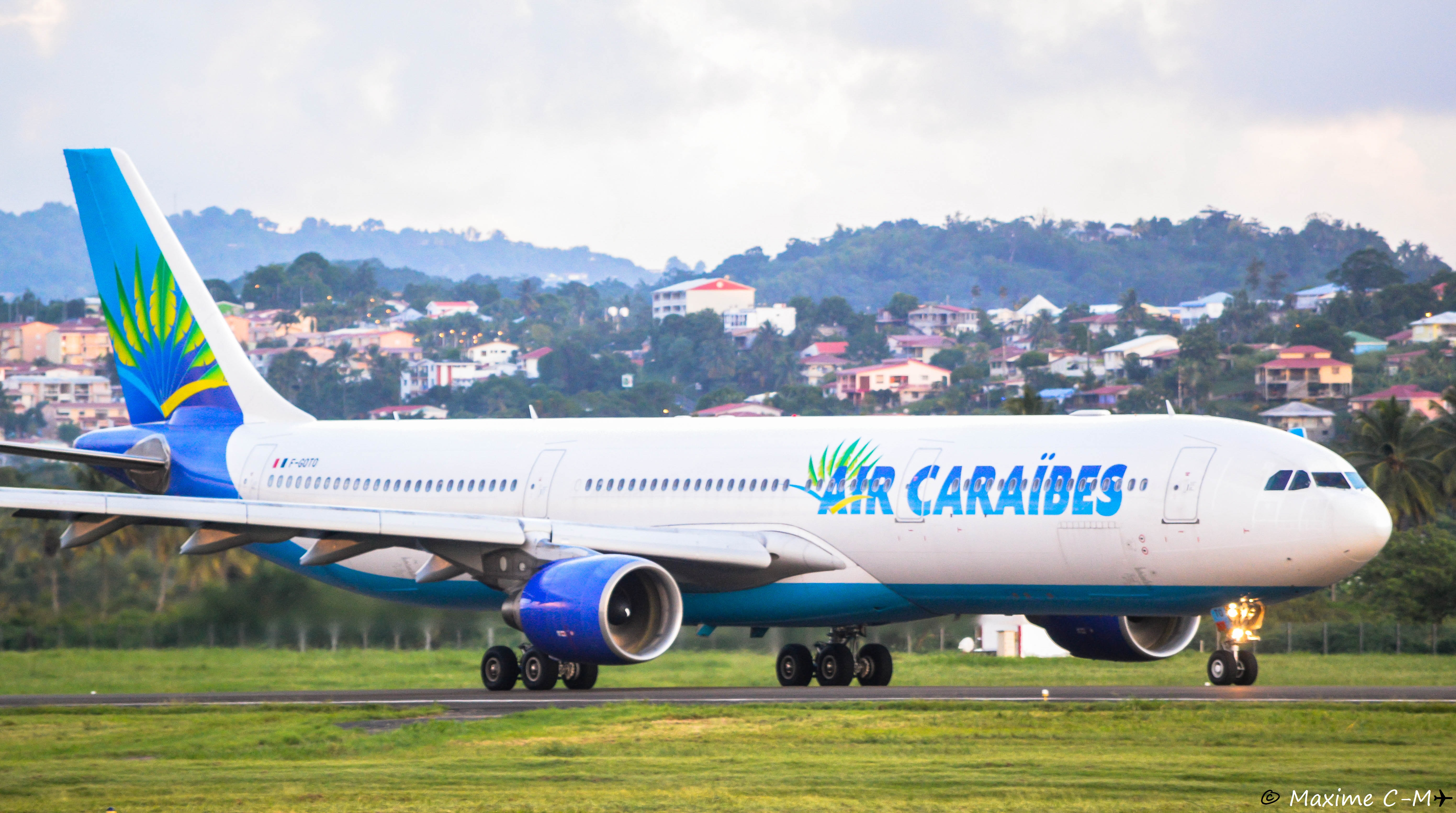 A330 Air Caraibes